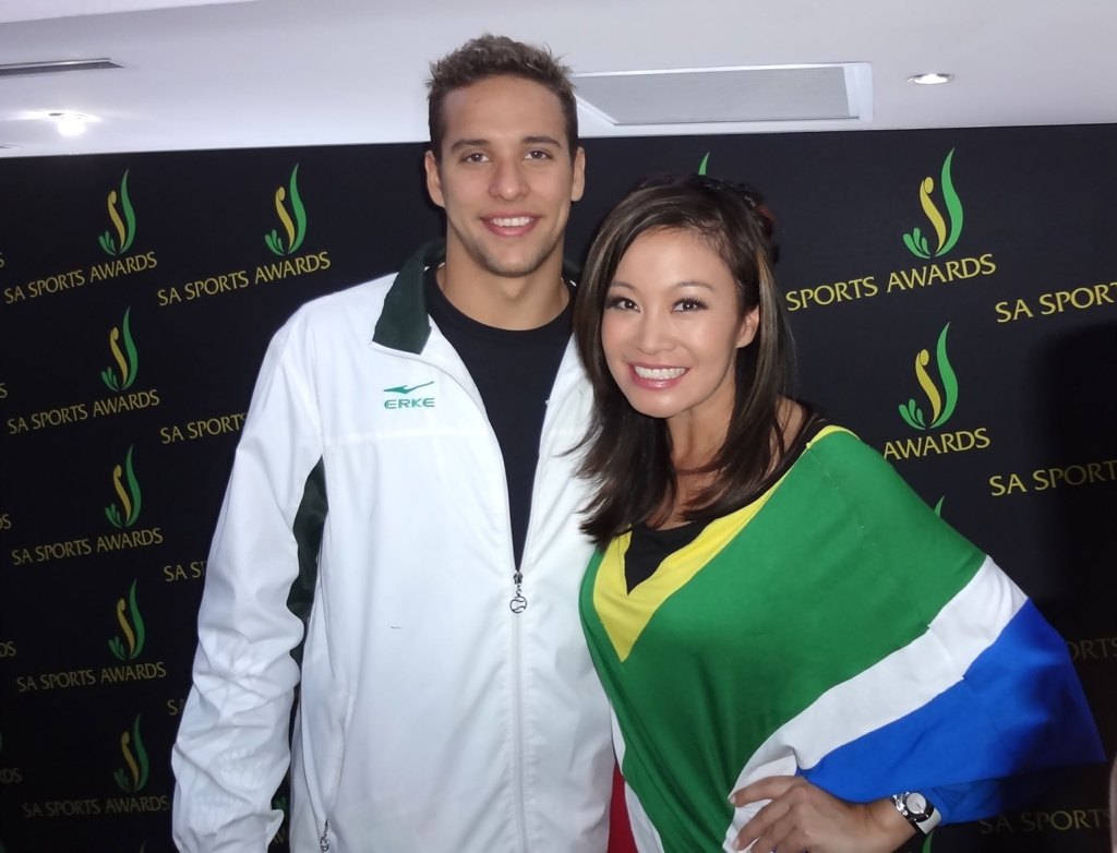 TV and Radio Presenter Jen Su with South African Olympic Gold Medalist Chad Le Clos. Jen Su wears SA Flag dress by Kelly Fisher. Hair by Nicolette Valjeaux of Jeauval Salon Fourways.